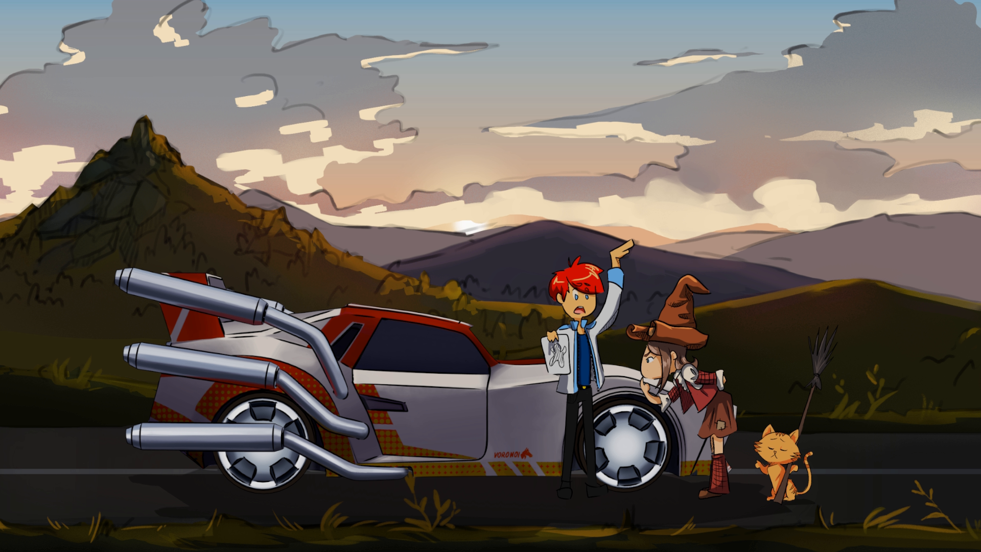 In Morevna Project episode 4, Ivan Tsarevich asks Pepper and Carrot (of webcomic Pepper&Carrot in cameo appearances) if they have seen Koschei, a giant robot, or his abductee, biker Maria Morevna.